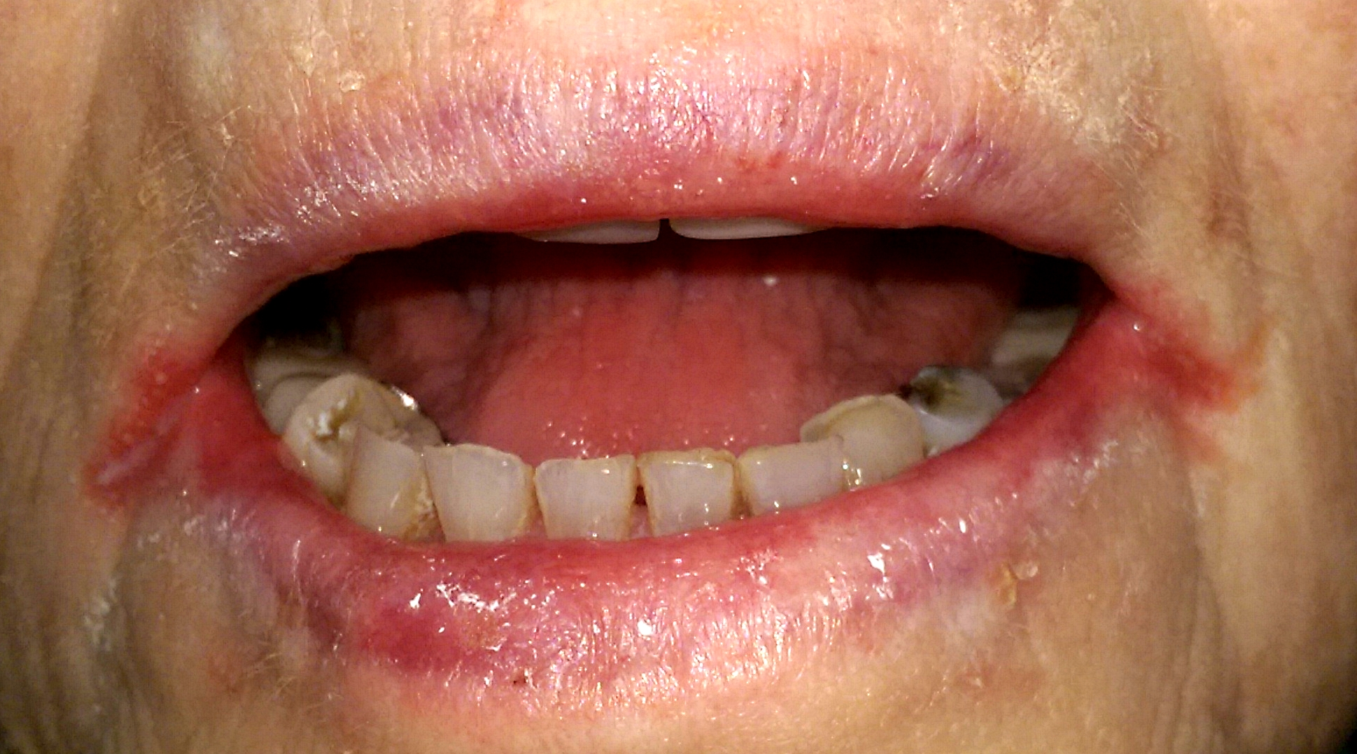 Photograph of bilateral angular cheilitis in an elderly individual with false teeth, iron deficiency anemia and xerostomia This patient signed a consent form a blank copy of which is pasted below: Consent Form for Clinical Photography • Your clinician would like to take a photograph • The image may be used for teaching purposes in a healthcare environment (e.g. a lecture or teaching session with students or junior doctors), in presentations for medical conferences, in professional medical publications (including journals and textbooks), or in websites (e.g. medical articles on Wikipedia under the Creative Commons Attribution-Share Alike 3.0 Unported copyright license*) • The image will be taken on a mobile device and then promptly transferred to a secure hard drive along with an electronic copy of this form to be stored for reference • You will NEVER be personally identifiable from the image, and you can view it after it has been taken to check you are happy with it • Your personal information, such as name and address will NEVER be disclosed with the image. Very general details, such as your rough age and gender may be disclosed. Some medical details about what is shown in the image may also be disclosed, e.g. the diagnosis or appropriate terminology describing the appearance I understand and consent to the above Patient name ………………………………………… Signed (patient / parent / legal guardian) ………………………………………… Signed (clinician) ………………………………………… Date ………………………………………… CC BY-SA 3.0 for details please